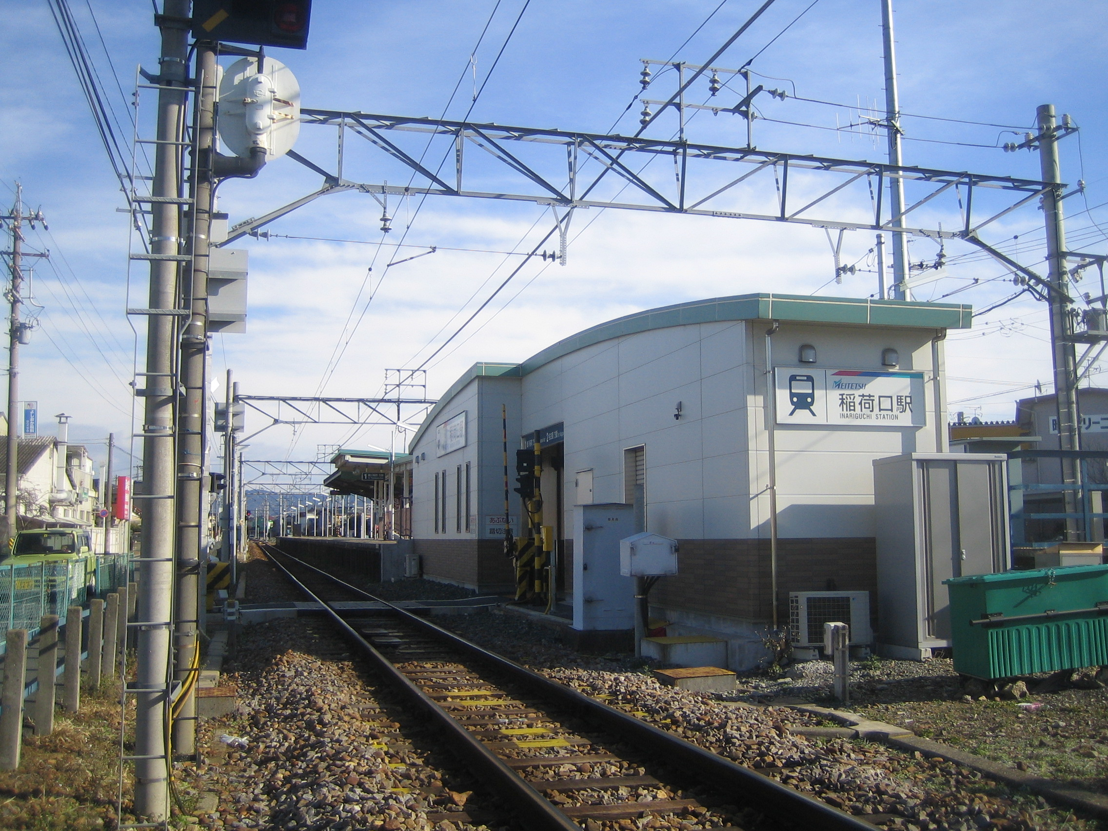 Inariguchi Station (稲荷口駅 Inariguchi-Eki), located at Futamicho, Toyokawa, Aichi, Japan